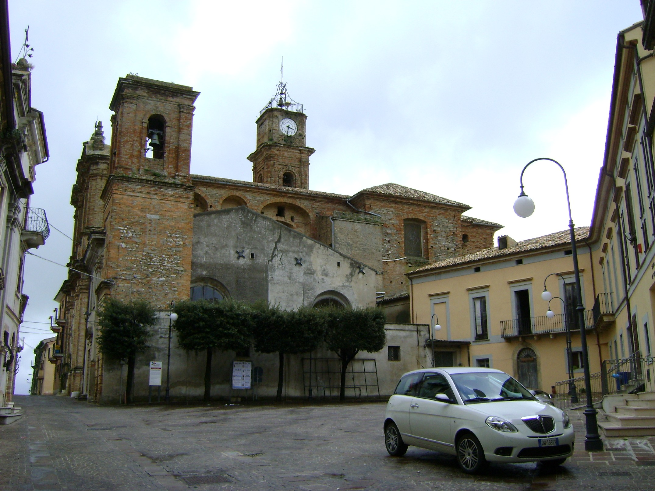 Raffaele Caporali square, Castel Frentano, province of Chieti.